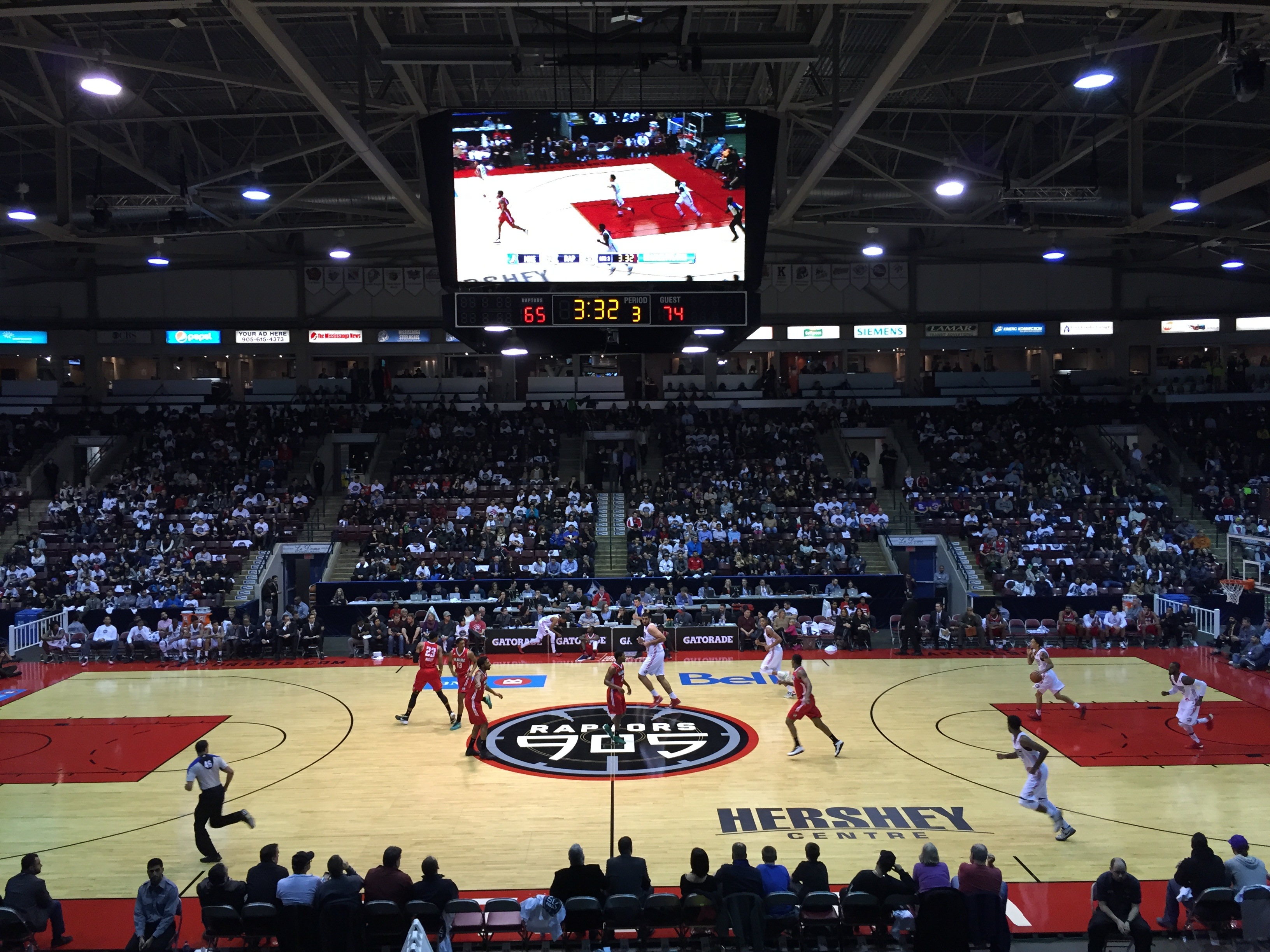 Raptors 905 game action at the inaugural home opener at the Hershey Centre in Mississauga